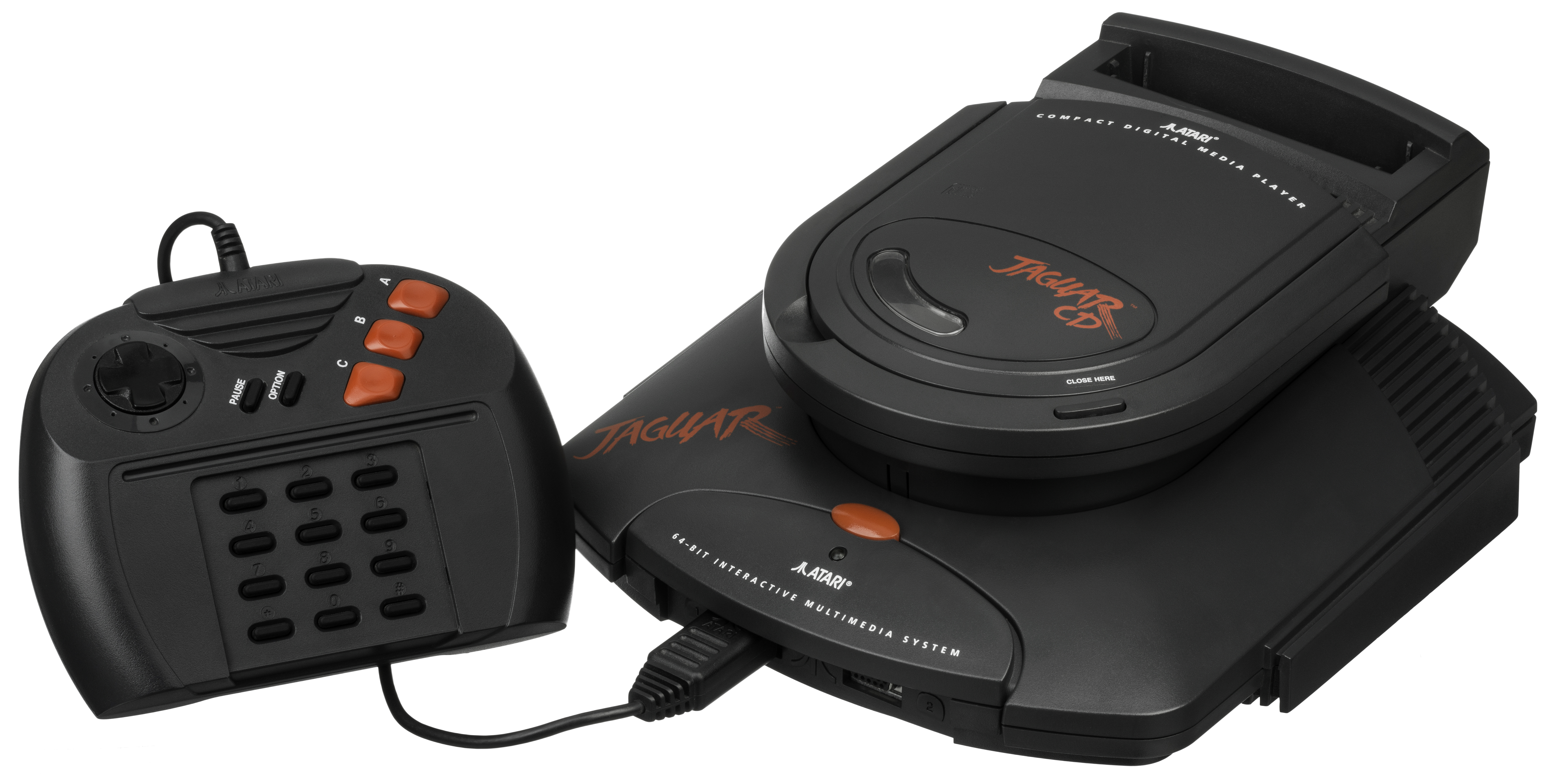 The Atari Jaguar console shown with the Jaguar CD and the standard controller. The Jaguar CD was a poorly-supported and often delayed add-on released late in 1995. It has less than a dozen games for it, as it came late in the consoles life and shortly before Atari Corp pulled themselves out of the gaming business.